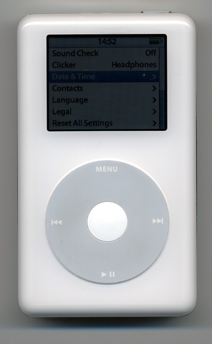 Apple iPod photo